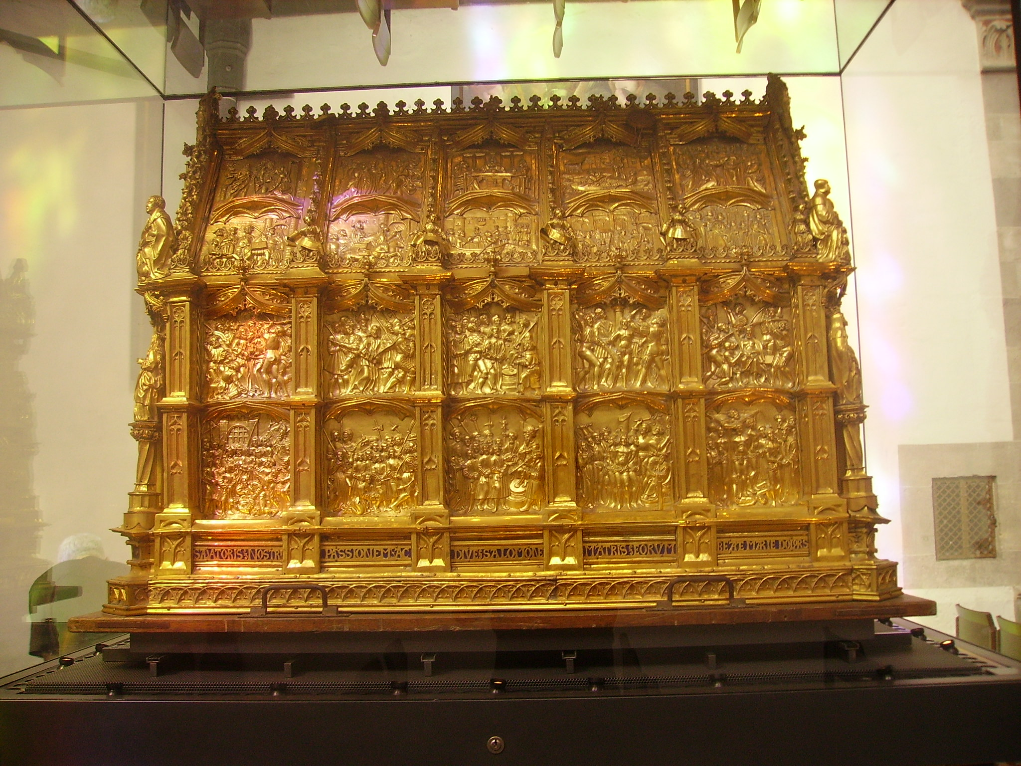 Shrine of the catholic Church St. Andrew, Cologne